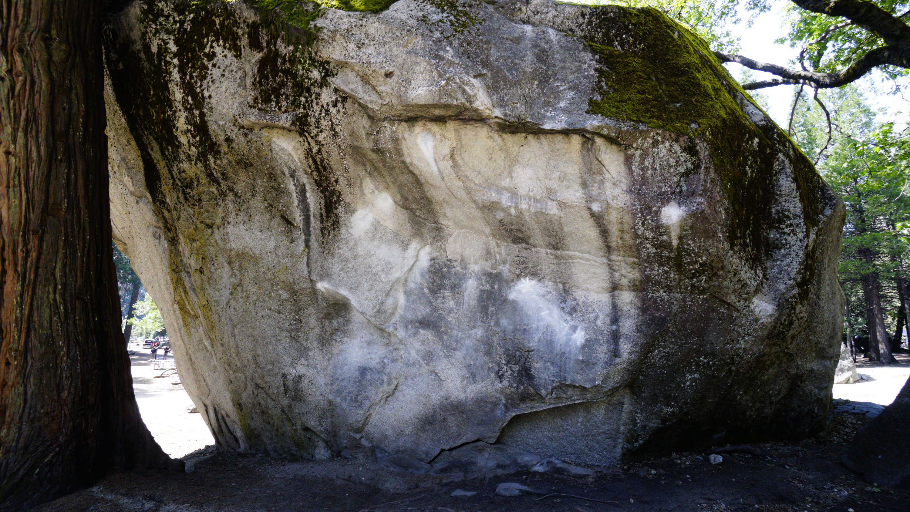 Midnight Lightning has once again been erased